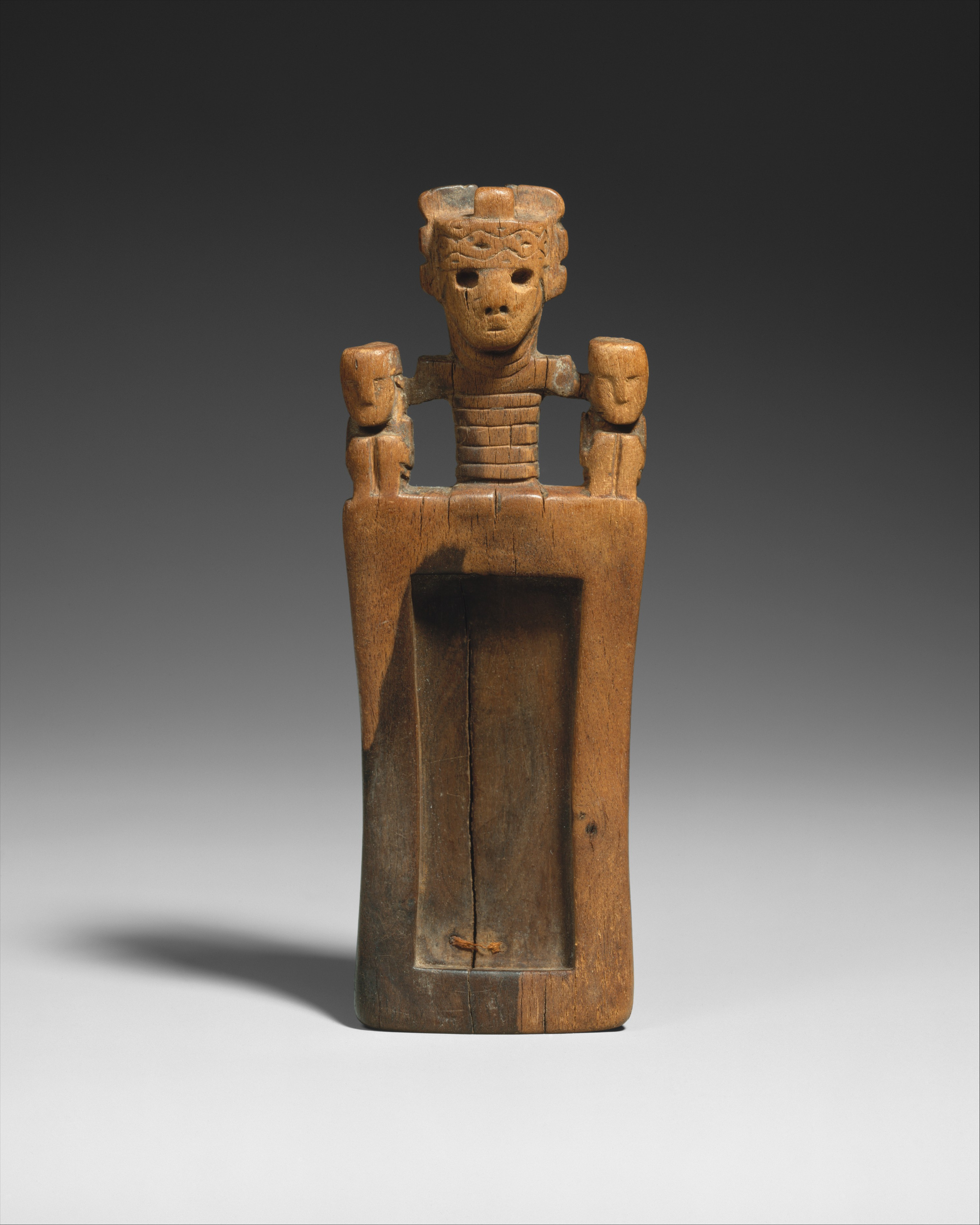 Wari; Snuff tray; Wood-Containers